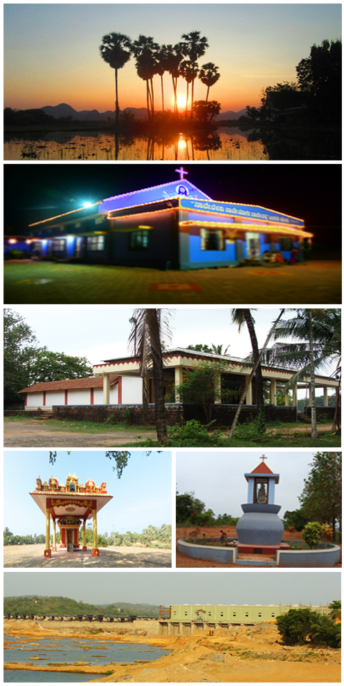 This image contains the Sacred Heart Church and Hindu Temple and Image of Vented Dam Shamboor